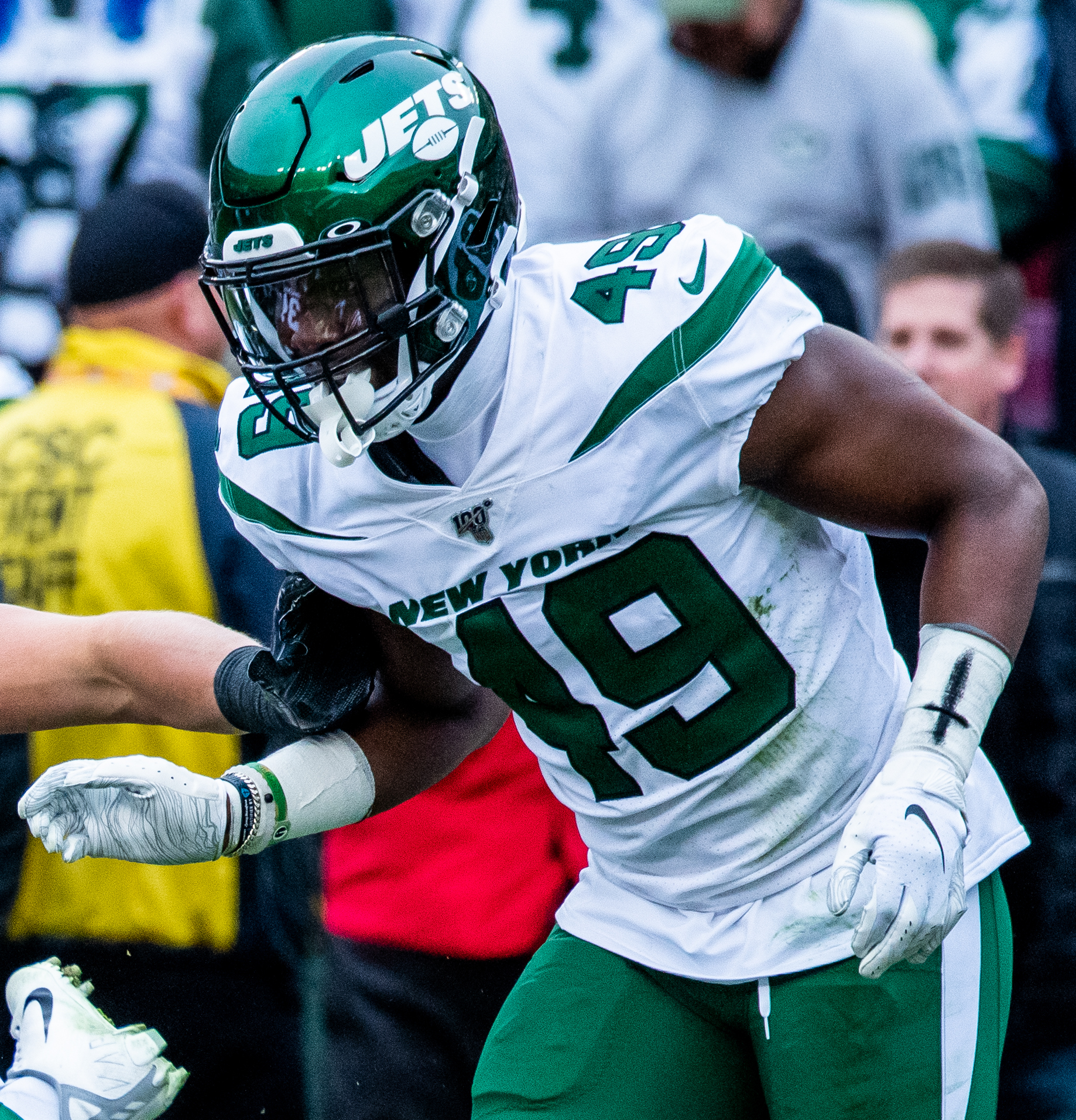 In 2019